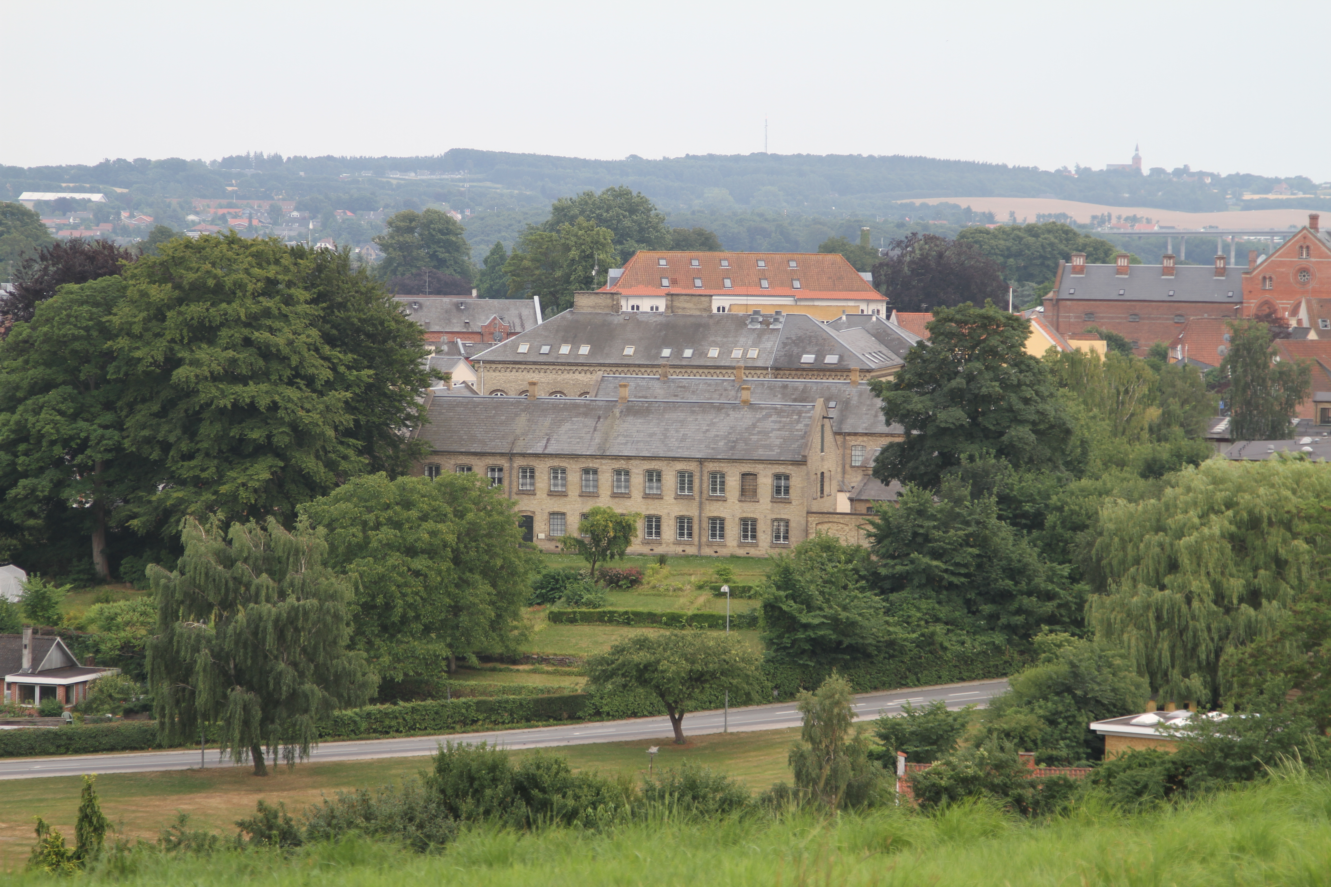 The Viebæltegård Welfare Museum in Svendborg, Funen, Denmark, seen from the Galgebakken hill.